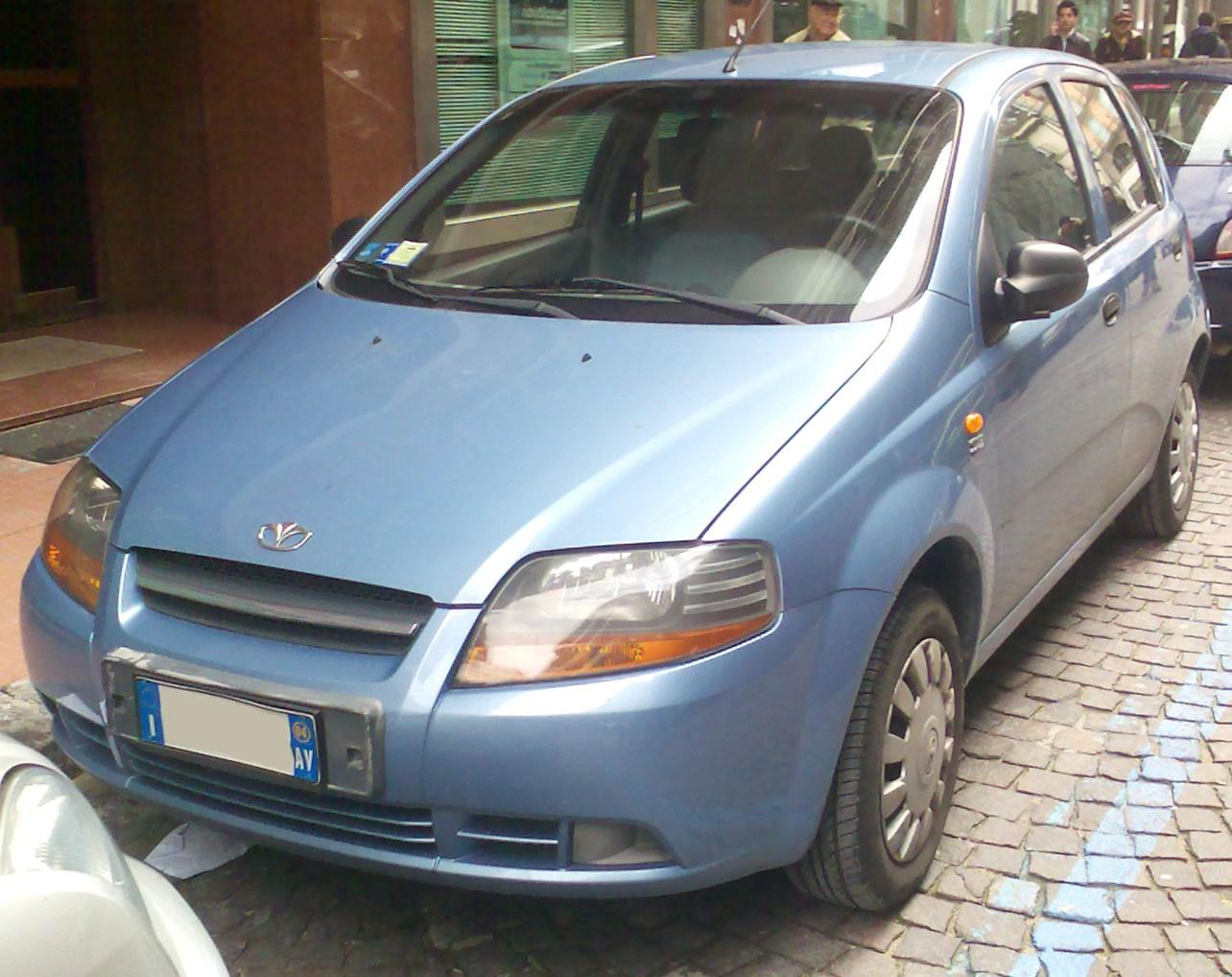 2004 Daewoo Kalos